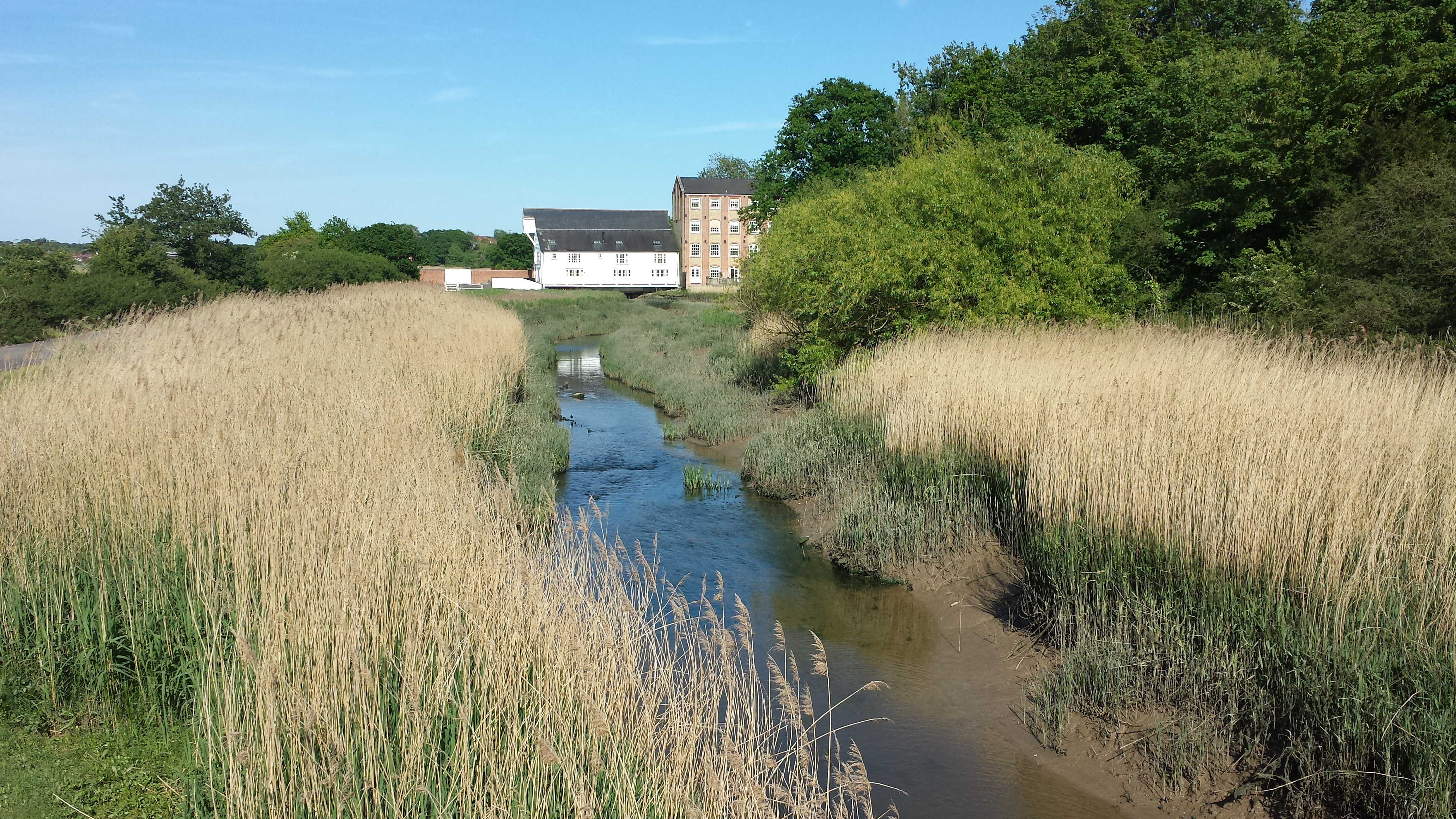 The Roman River above Fingringhoe Mill, once a tide mill, but now converted to housing.